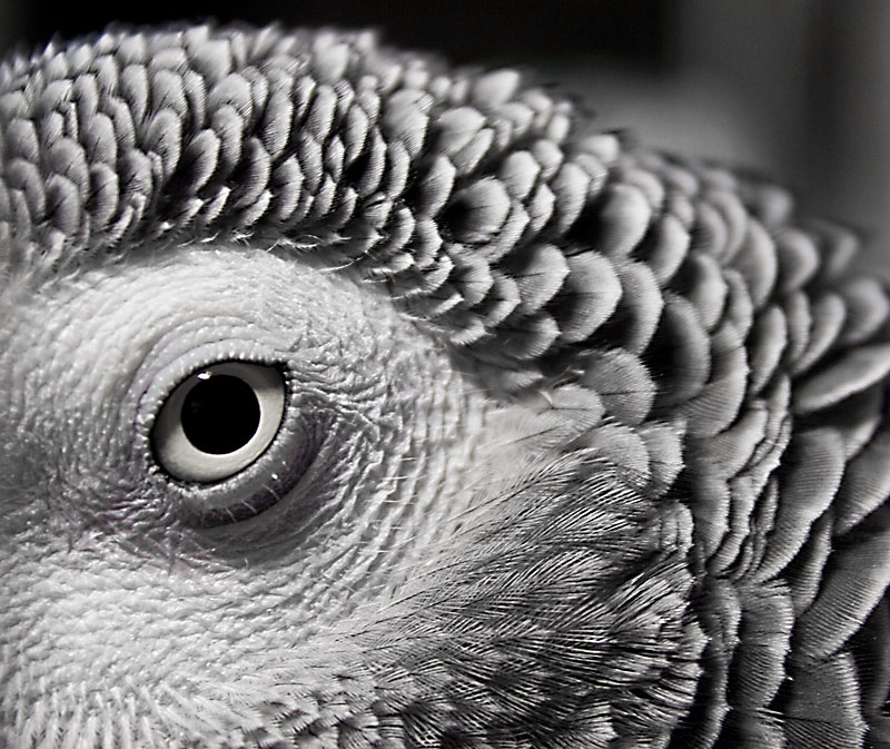 African Grey Parrot - Psittacus erithacus - macro